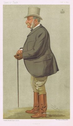 Caricature of The Duke of Beaufort KG PC. Caption read "Badminton".